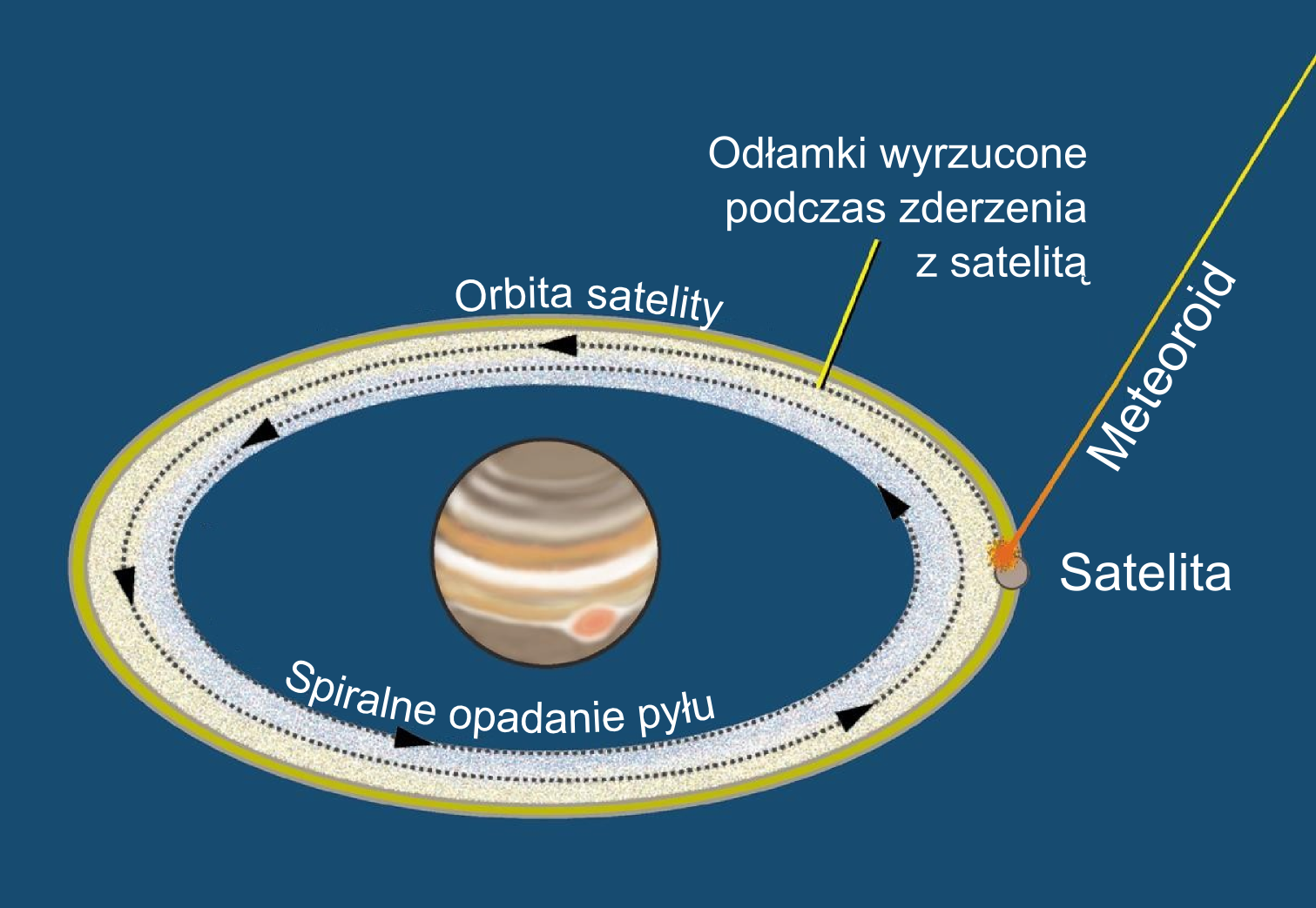 How the rings of Jupiter are formed. Polish description. PNG version based on Image:R08 satorb full.jpg Image created for Nasa by Cornell University.